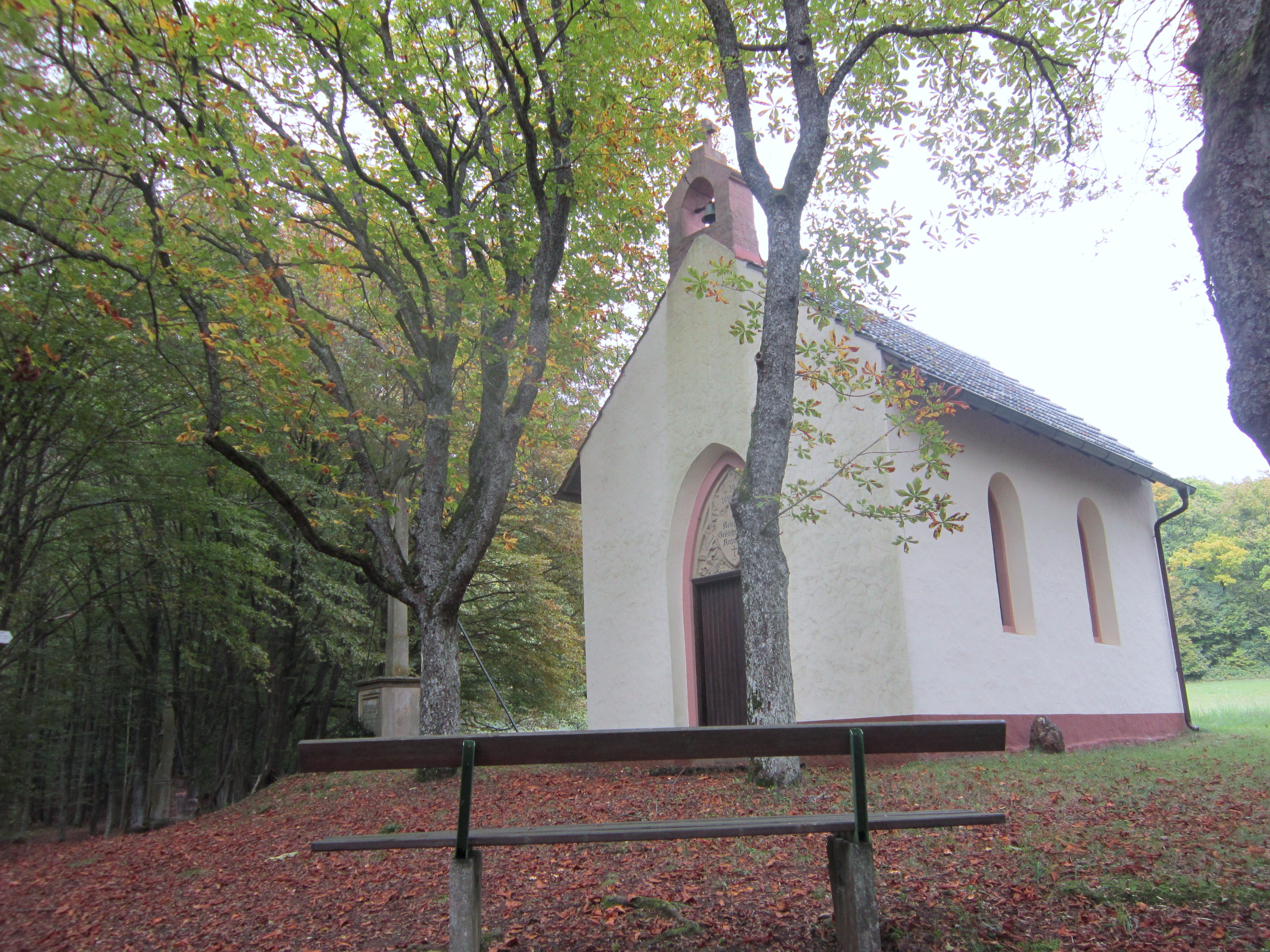 The "Kriegergedächtniskapelle" in Stralsbach, a quarter of the German town of Burkardroth in Lower Franconia (Bavaria).